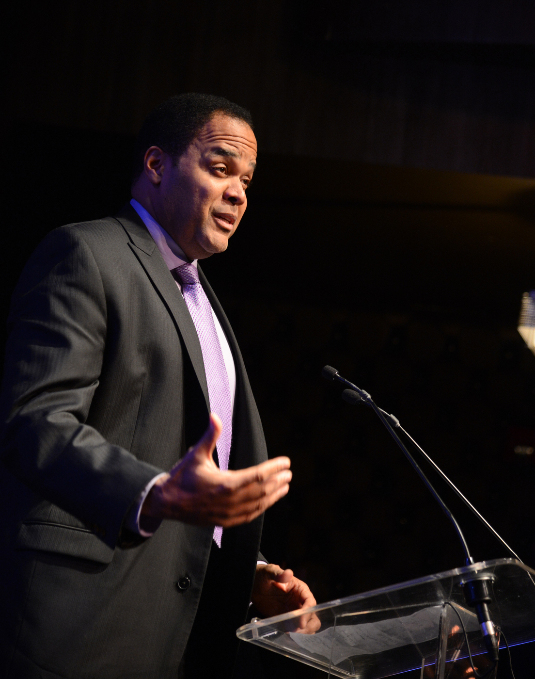 The third annual Daily News Hometown Heroes in Transit Awards, held at the Edison Ballroom on Thu., January 29, 2015. Actor Victor Williams. Photo: Marc A. Hermann / MTA New York City Transit